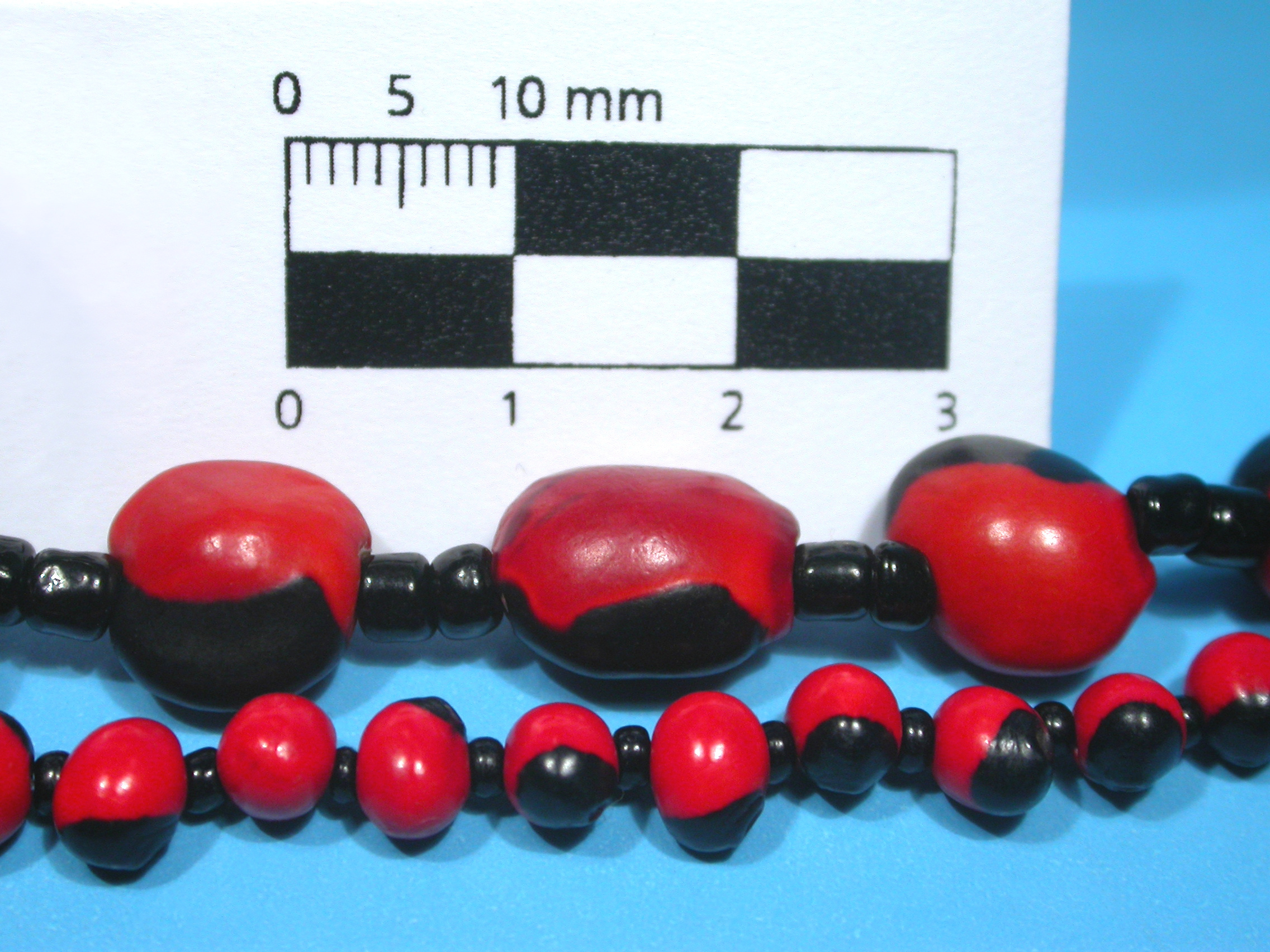 Closeup of two necklaces made from seeds (above: Ormosia coccinea; below: Abrus precatorius) combined with black beads.